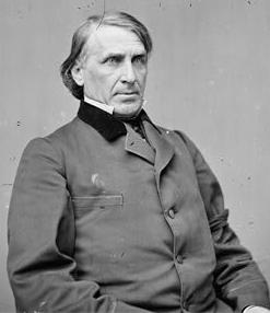 Elihu B. Washburne, 25th United States Secretary of State.